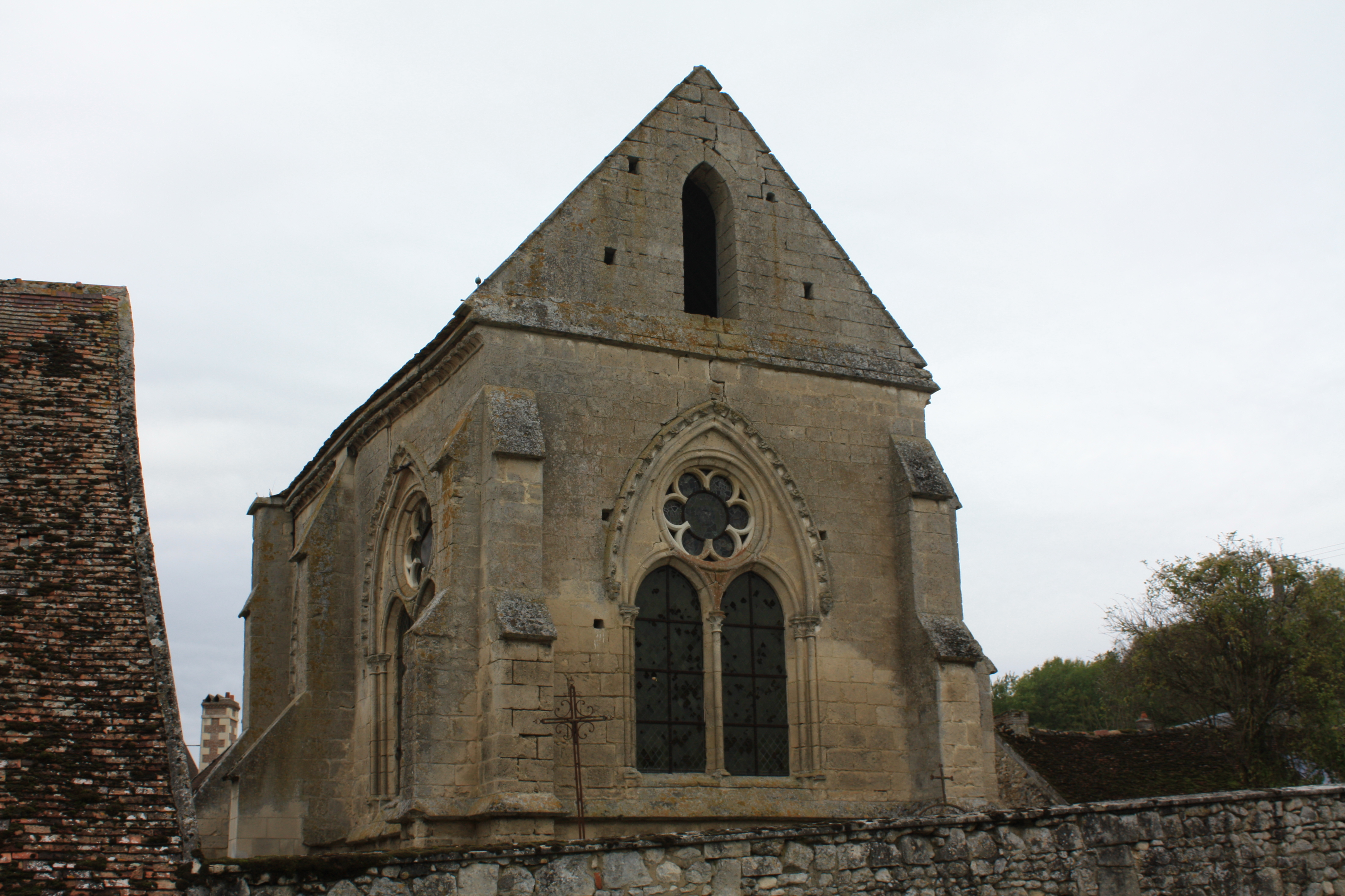 Église de la Nativité-de-la-Sainte-Vierge de Bruys